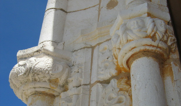 Igreja Matriz, Estômbar (Lagoa), Algarve, Portugal -- main door capitals